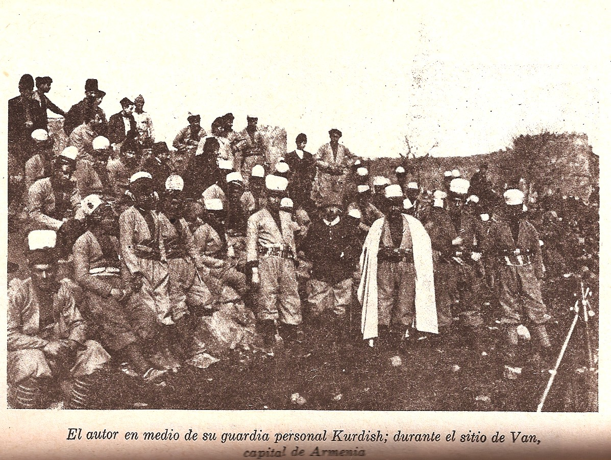 Photo of venezuelan soldier and adventurer Rafael de Nogales Méndez (1879-1936) taken in the siege of Van, Nogales is surrounded by his Kurdish guard.